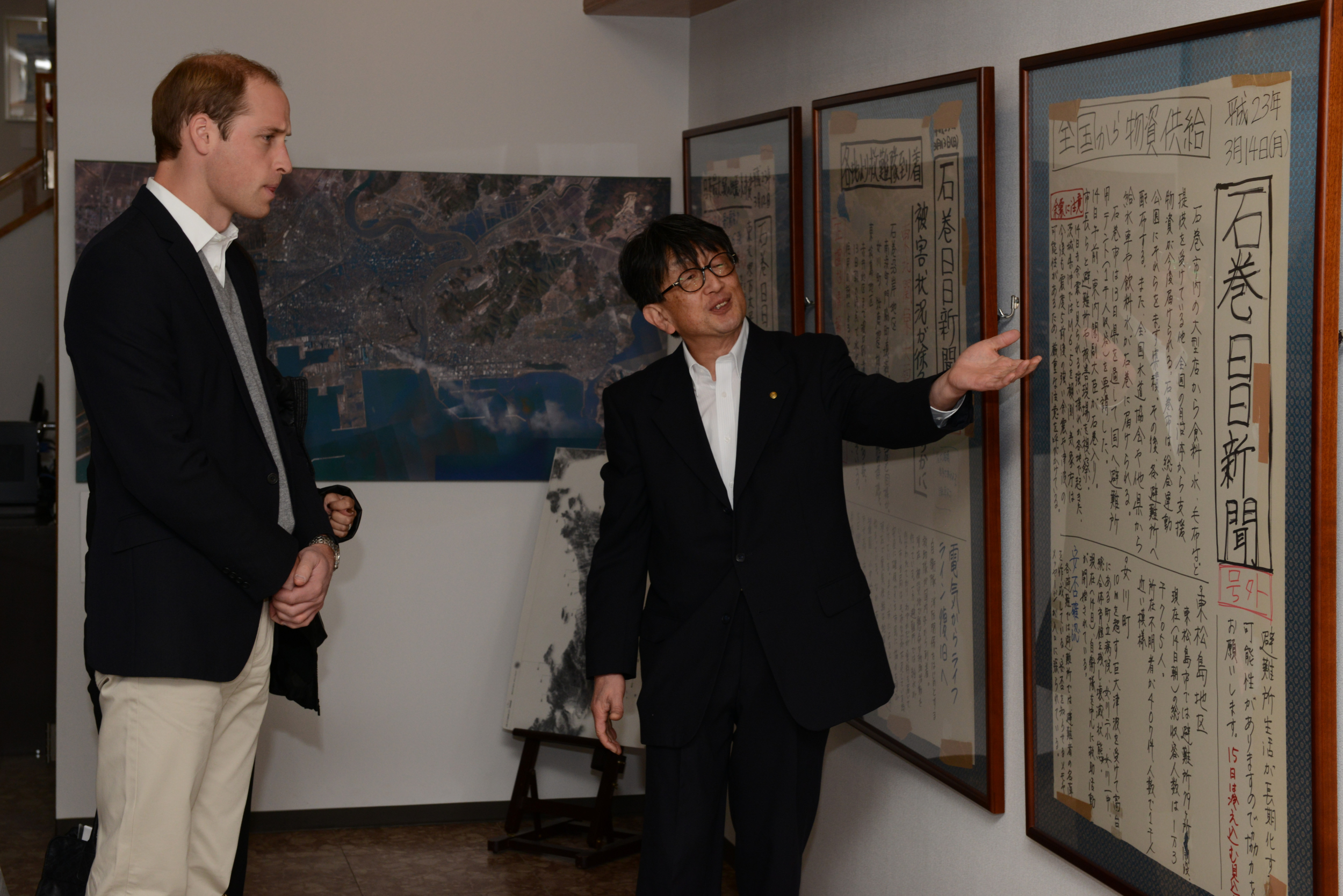 Hiroyuki Takeuchi, Director of the Ishinomaki NEWSée, explained to Prince William about handwritten editions of the Ishinomaki Hibi Shimbun at the Ishinomaki NEWSée in Ishinomaki City, Miyagi Prefecture on March 1, 2015.